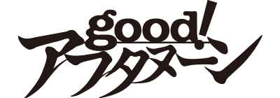 The logo of the manga magazine good! Afternoon (good! アフタヌーン Guddo! Afutanūn) .